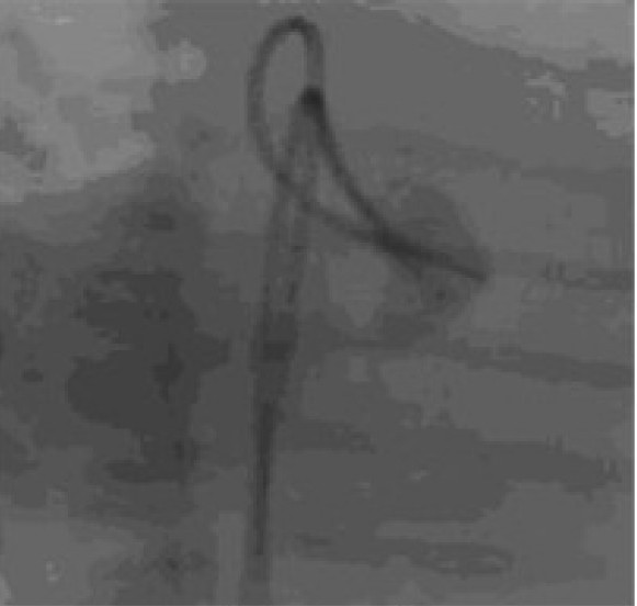 dilated fistula between the proximal right coronary artery and right atrium